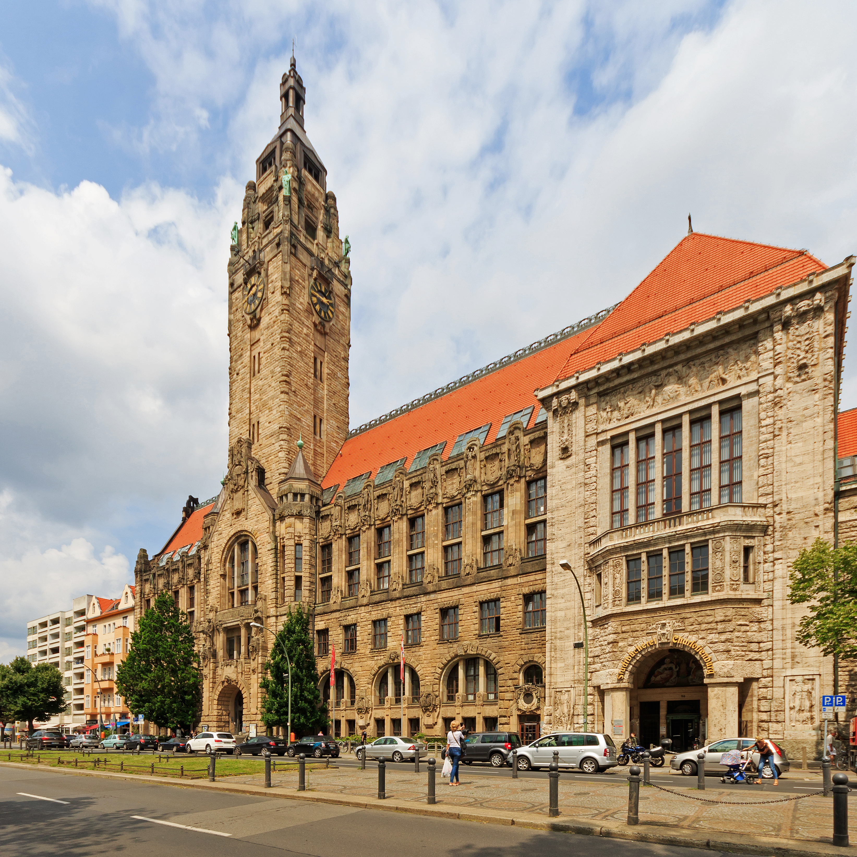 Town hall of Berlin-Charlottenburg district